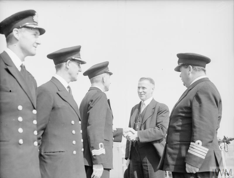 NEW ZEALANDERS IN ROYAL NAVY MEET THEIR DEFENCE MINISTER. 14 APRIL 1943, PORTSMOUTH, DURING THE VISIT TO BRITAIN, MR FRED JONES, NEW ZEALAND MINISTER FOR DEFENCE, MET SOME OF HIS FELLOW COUNTRYMEN WHO ARE SERVING WITH THE ROYAL NAVY. Mr Jones being introduced to New Zealand Officers of the New Zealand Cruiser HMS ACHILLES.